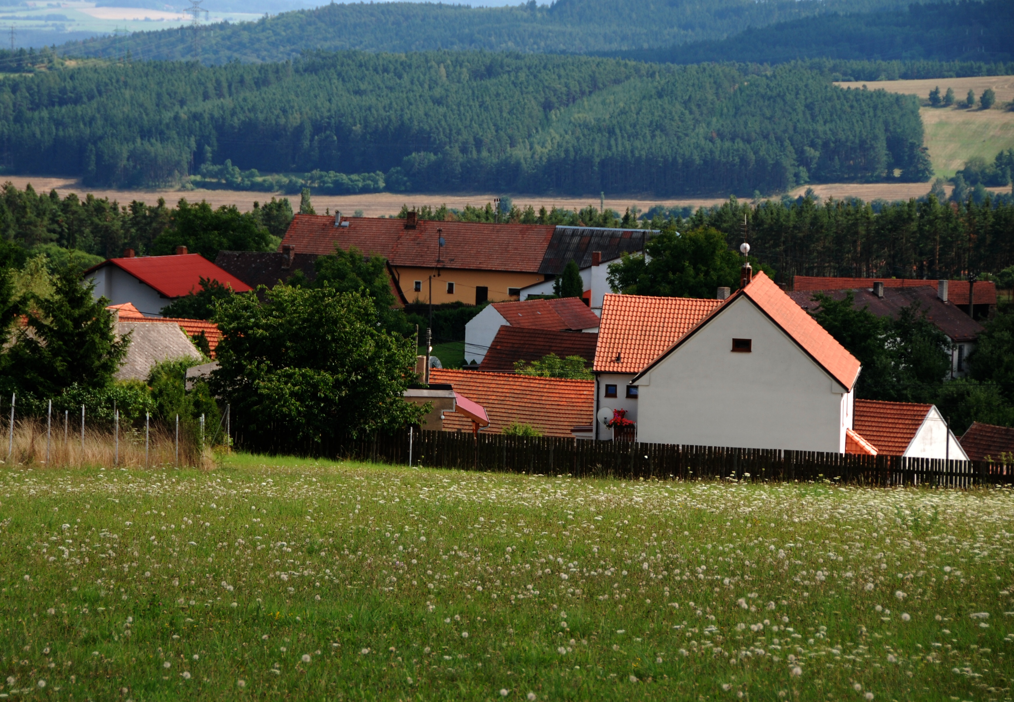 This photograph was taken within the scope of the second year of the 'Czech Municipalities Photographs' grant.